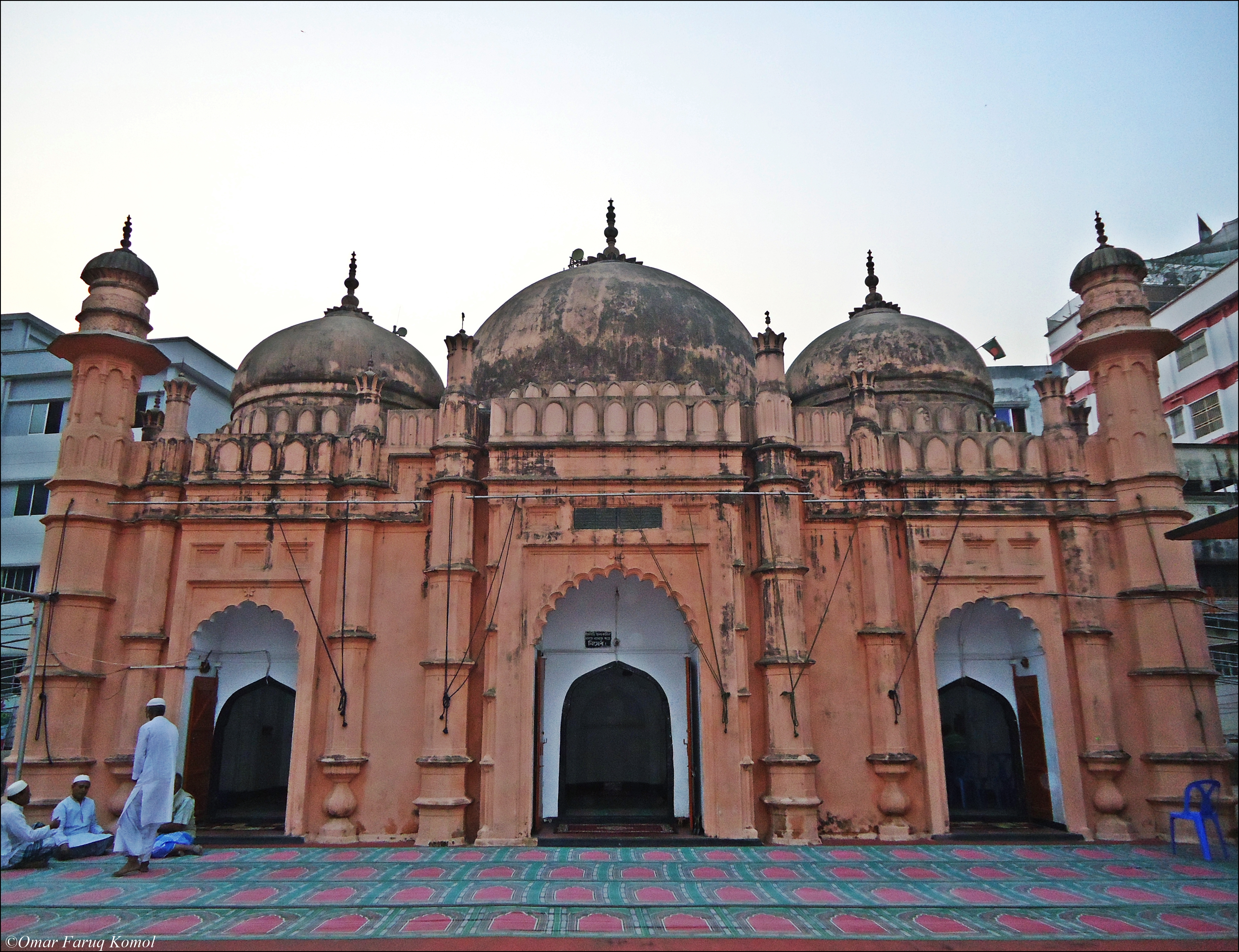 ঢাকার একটি ঐতিহাসিক নিদর্শন।